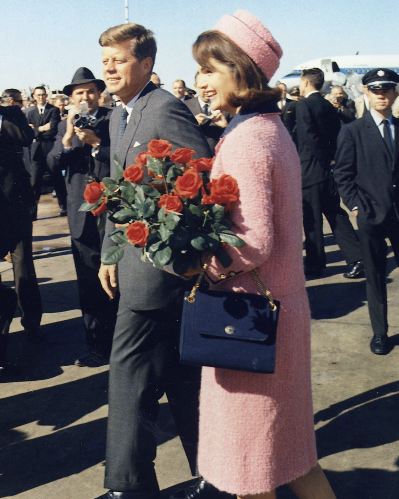 President John F. Kennedy and Jacqueline Kennedy arrive at Love Field, Dallas, Texas. Kennedy was assassinated later in the day.